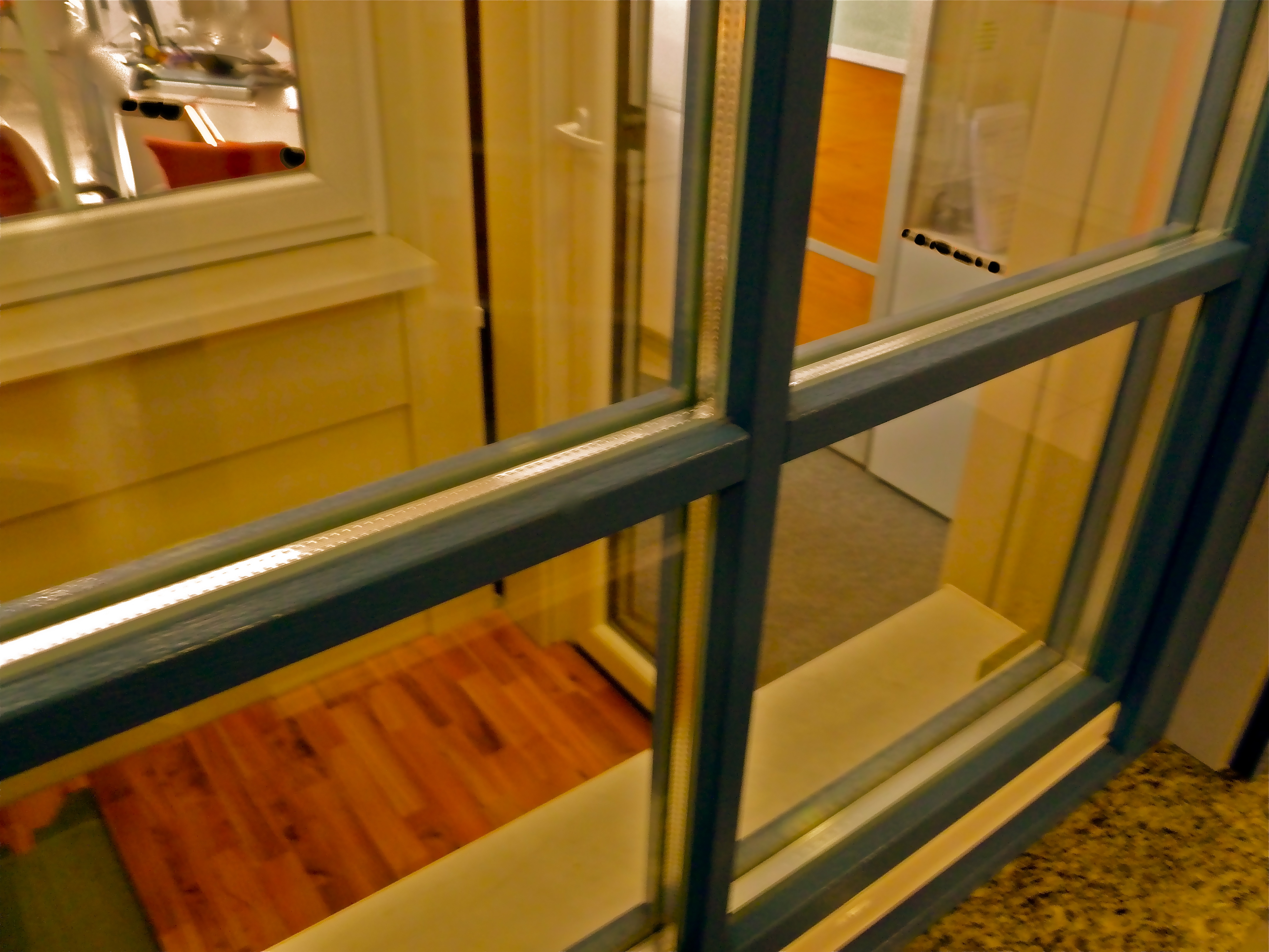 Fake glazing bar. Detail.